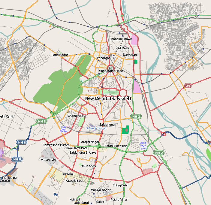 Map of New Delhi, India, including Delhi Ridge forest area near Chanakyapuri. Geographic limits of the map: N: 28.6882° N S: 28.5221° N W: 77.1177° E E: 77.3123° E